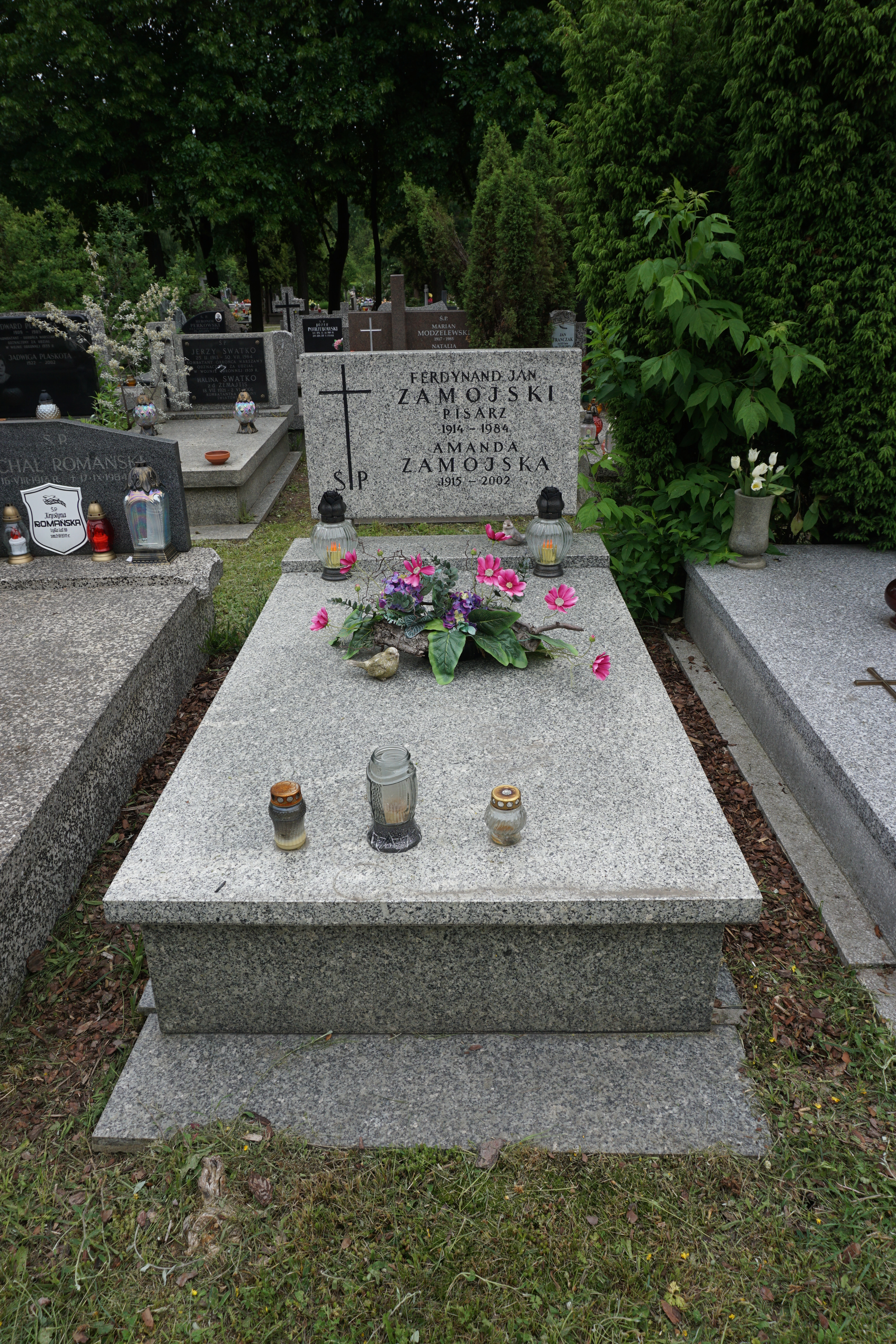 The grave of Ferdynand Zamojski at the North Municipal Cemetery in Warsaw (section E-XVI-1, row 1, grave 7)